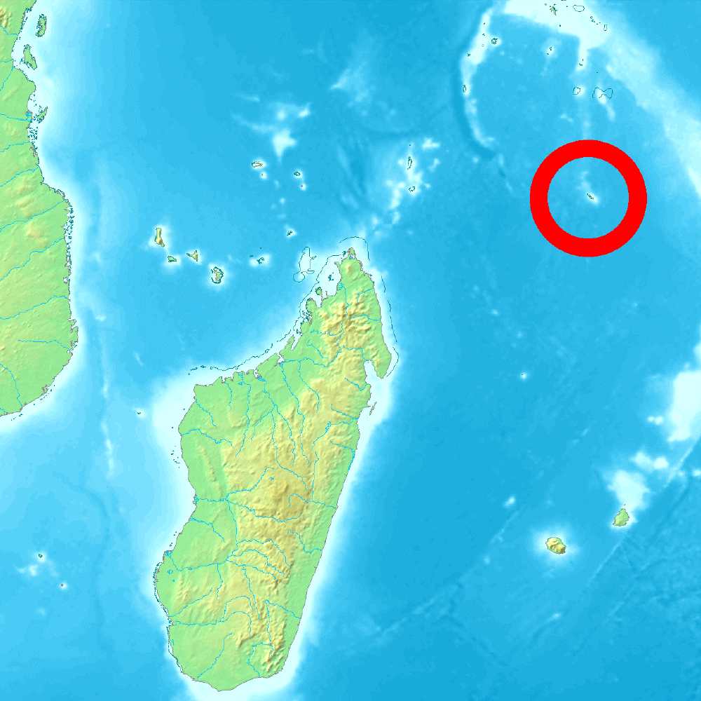 Position of Agalega Islands